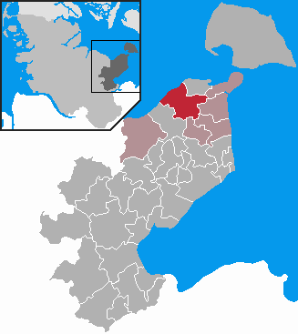 This map shows the area of the Gemeinde (municipality) Gremersdorf in the Kreis (district) Ostholstein, Schleswig-Holstein, Germany.